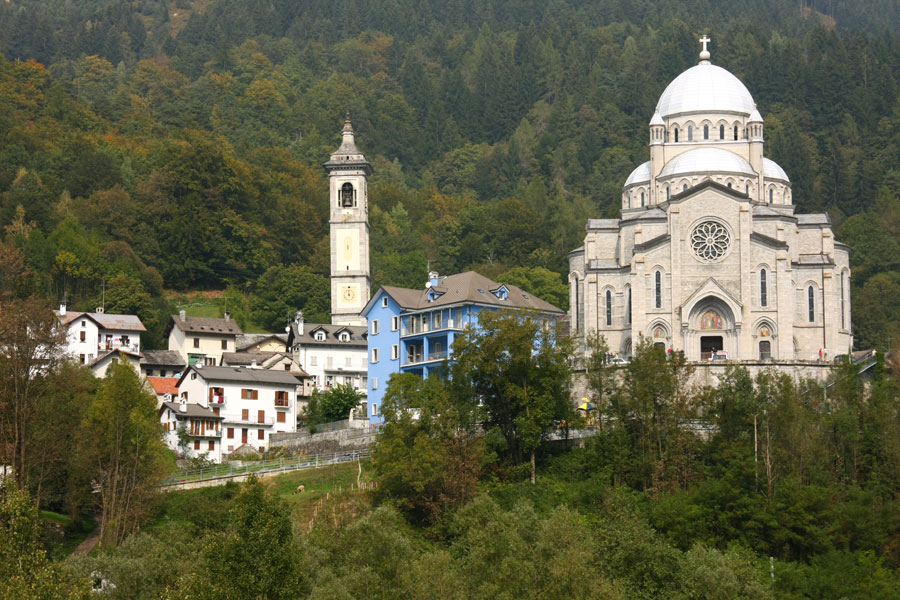 View of Re, Verbania, Italy